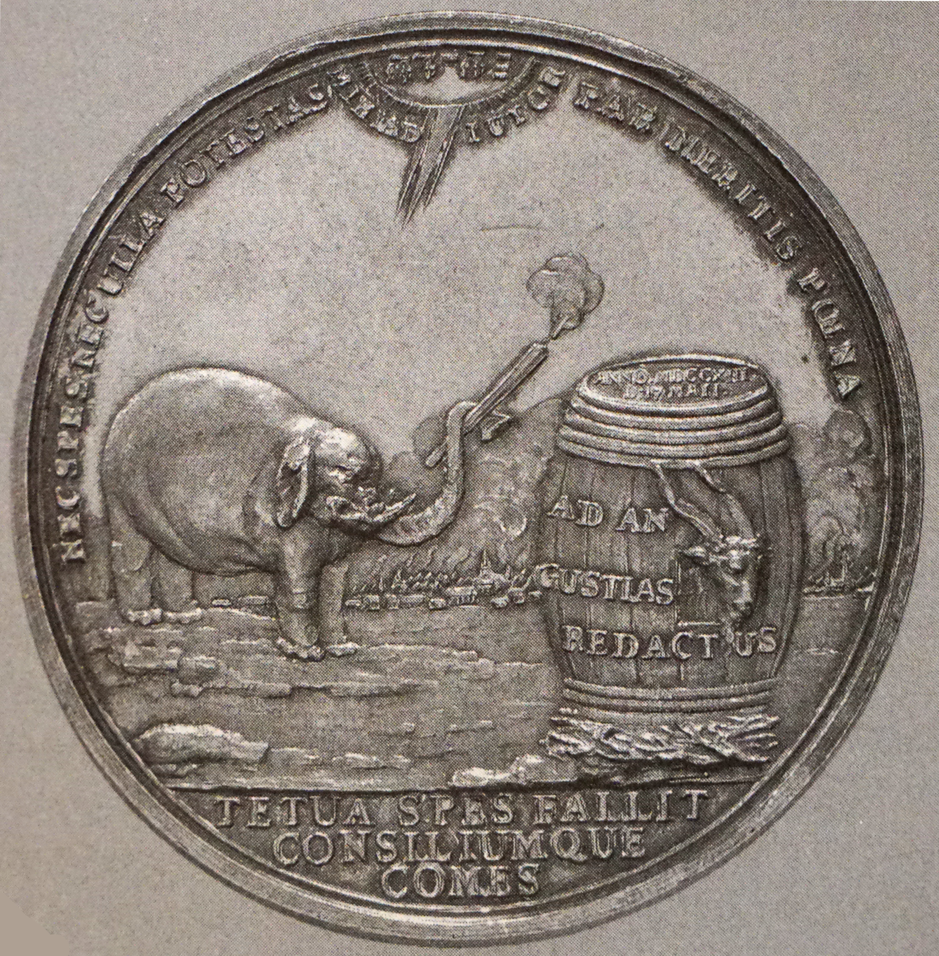 Danish medal of Magnus Stenbock's surrender at Tönning on May 1713. From the Royal Coin Cabinet in Stockholm, Sweden.